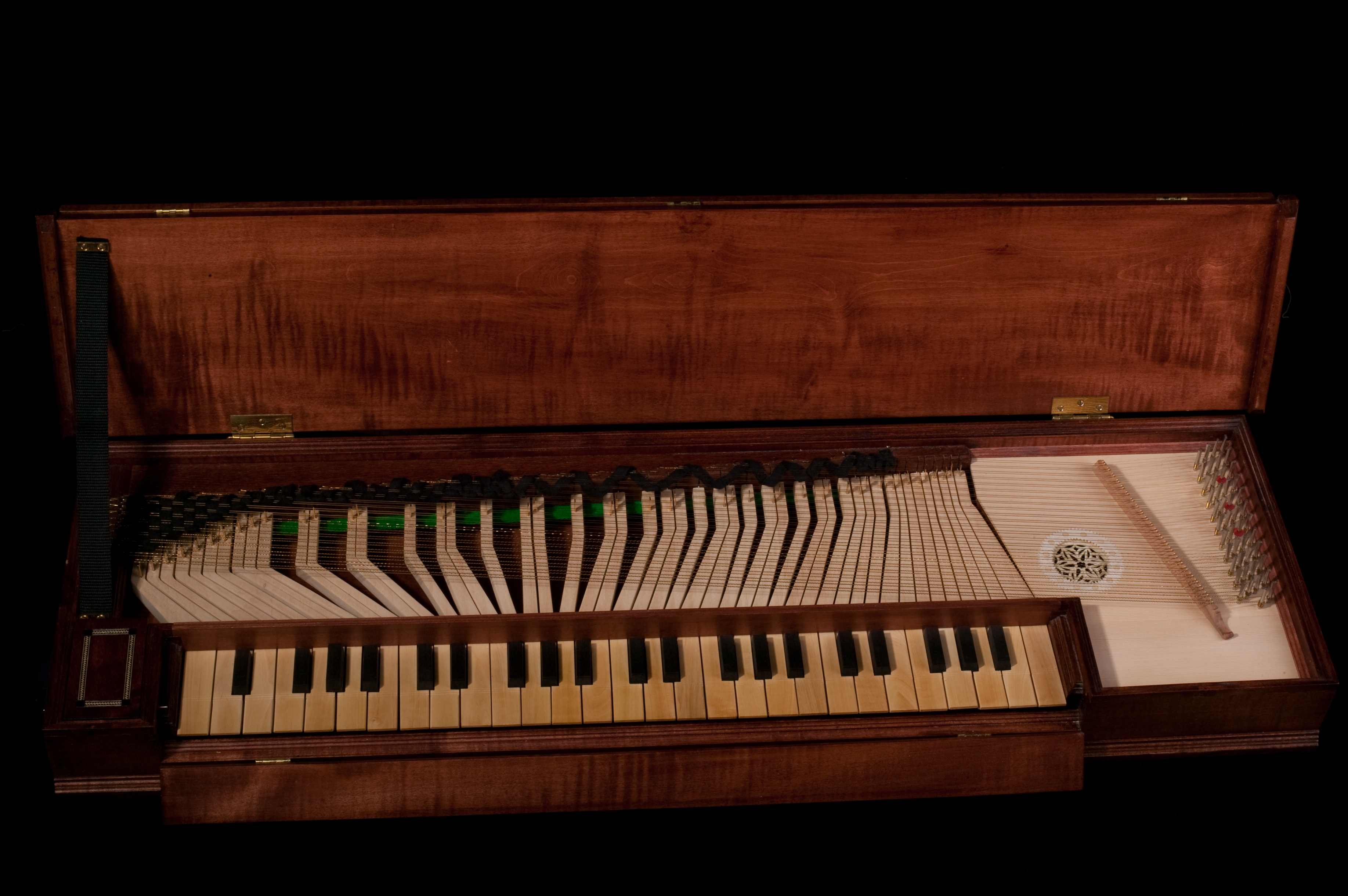 Clavichord, modern copy of a fretted clavichord built by Israel Gellinger in 1670 conserved in Namur, Belgium. Copy built by Pierre Verbeek.